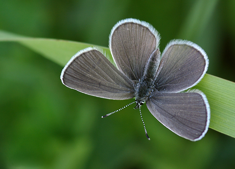 An overwing view of Small Blue, a little butterfly species from LYCAENIDAE family. Photo has been taken in 15th May 2011 in Mersin, Turkey.